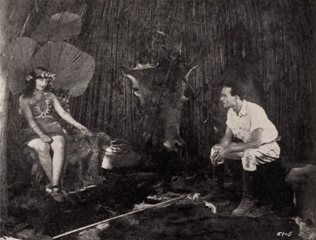 Still from the American adventure film serial The Jungle Goddess (1922) with Elinor Field and Truman Van Dyke, on page 76 of the December 24, 1921 Exhibitors Herald.